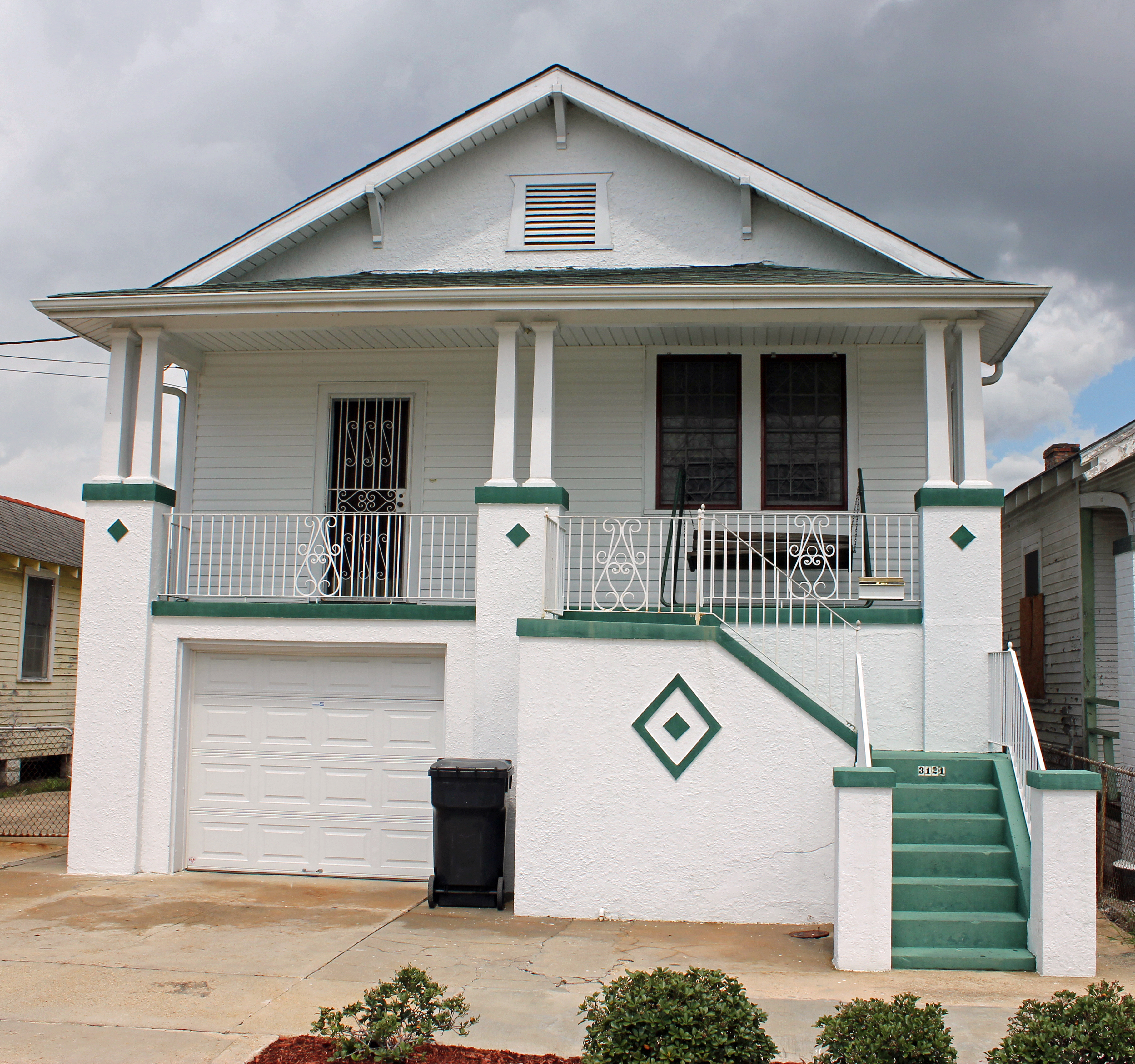 The A.P. Tureaud, Sr. House, located at 3121 Pauger Street in New Orleans, Louisiana. The house is listed on the National Register of Historic Places.